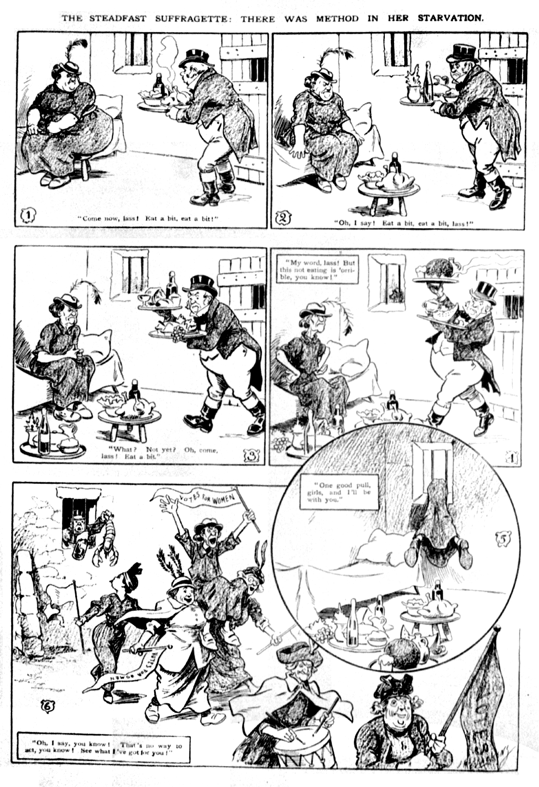 Library of Congress description: TITLE: The steadfast suffragette: there was method in her starvation CAPTIONS: "Come now, lass! Eat a bit, eat a bit!" "Oh, I say! Eat a bit, eat a bit, lass!" "What? Not yet? Oh, come, lass! Eat a bit." "My word, lass! But this not eating is 'orrible, you know!" "One good pull, girls, and I'll be with you." "Oh, I say, you know! That's no way to act, you know! See what I've got for you!" CALL NUMBER: Illus. in AP101.P7 1913 (Case X) [P&P] REPRODUCTION NUMBER: LC-USZC2-1063 (color film copy slide) RIGHTS INFORMATION: No known restrictions on publication. SUMMARY: 6 frame cartoon showing obese English suffragette in prison being served a lot of food by John Bull, but refusing to eat. She becomes very thin and is pulled through bars by other suffragettes. MEDIUM: 1 print : lithograph. CREATED/PUBLISHED: c1913. NOTES: Lithograph signed in lower left by L.M. Glackens, copyrighted by Keppler & Schwarzmann. Illus. in: Puck, 1913 May 7, p. 4.